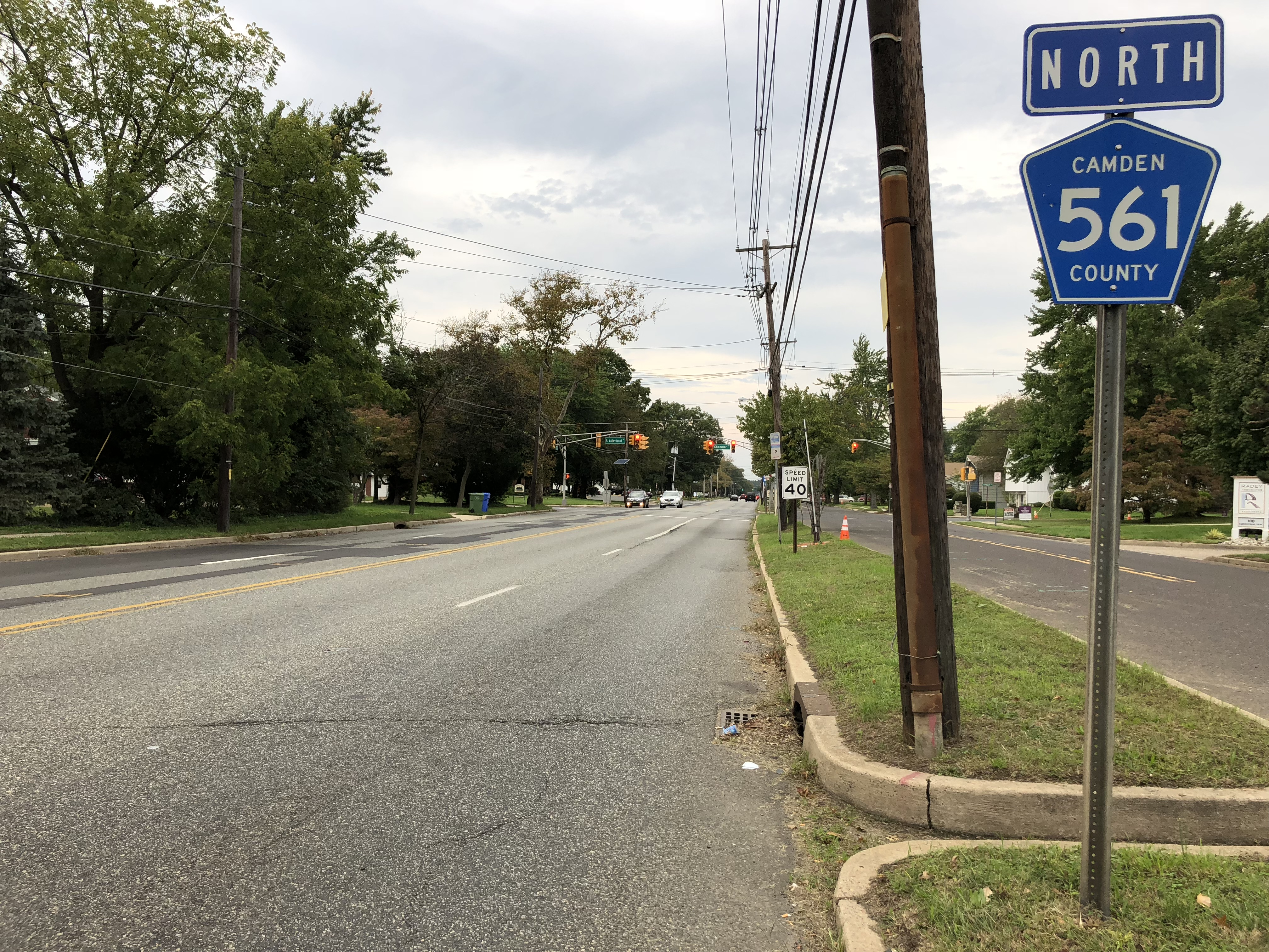 View north along Camden County Route 561 (Haddonfield-Berlin Road) just north of Interstate 295 (Camden Freeway) in Cherry Hill Township, Camden County, New Jersey